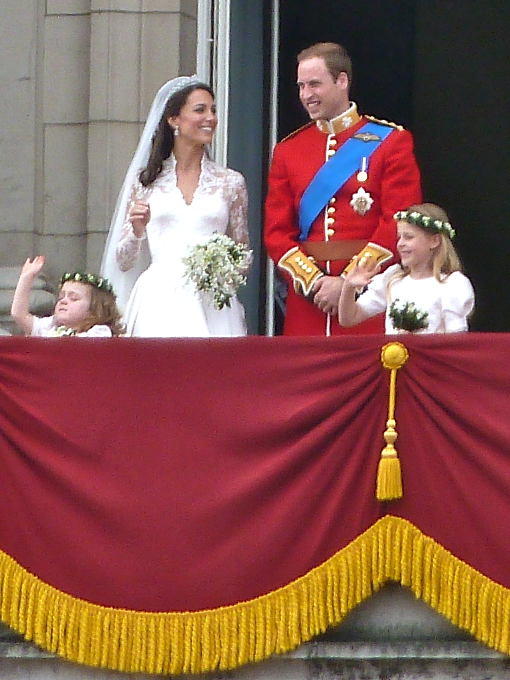 The British royal family on Buckingham Palace balcony after Prince William and Kate Middleton were married.